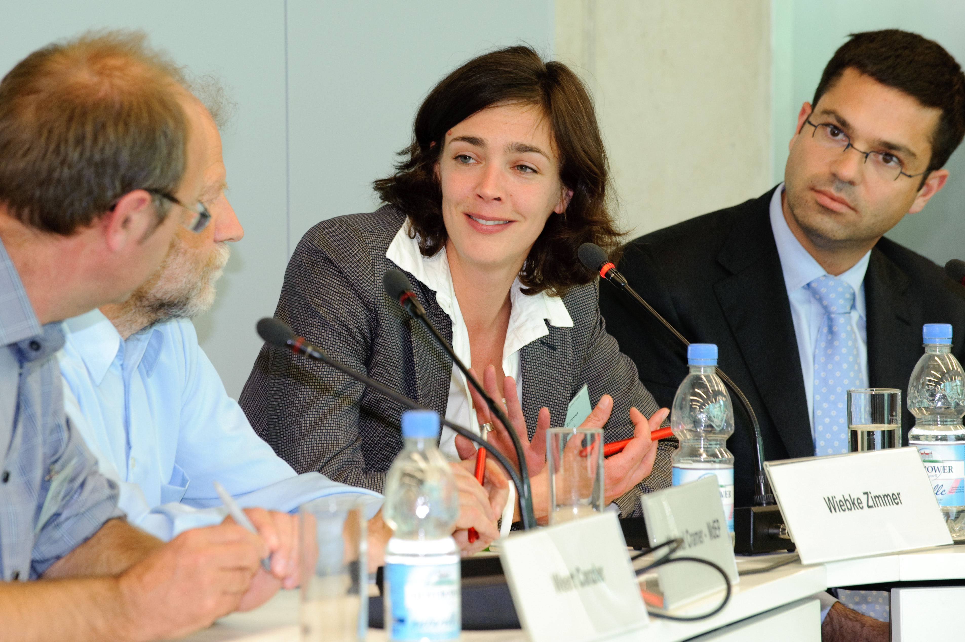 Foto: Stephan Röhl